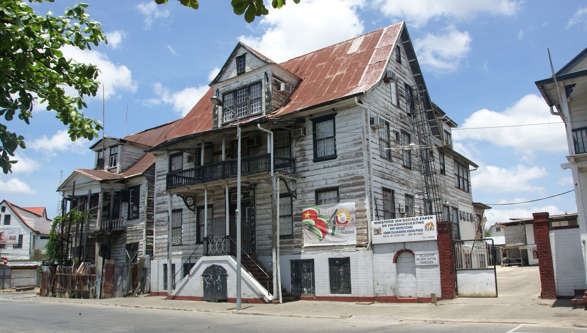 Waterkant 32 and 30, Paramaribo, Surinam.